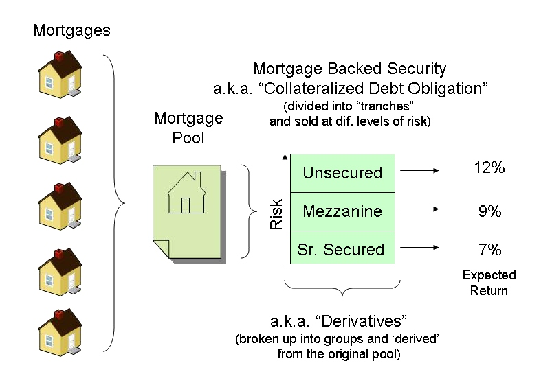 Mortgage Backed Security